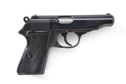 Note: For documentary purposes the original description has been retained. Factual corrections and alternative descriptions are encouraged separately from the original description.pistol - LRK 33583